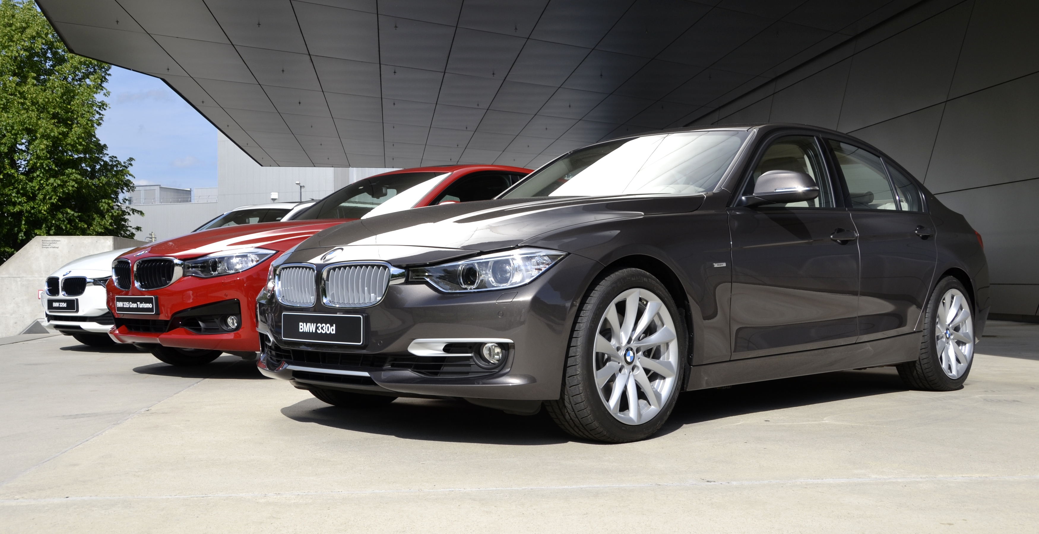 BMW 320d, BMW 335i Gran Turismo, BMW 330d automobiles in front of the exhibition facility BMW Welt.